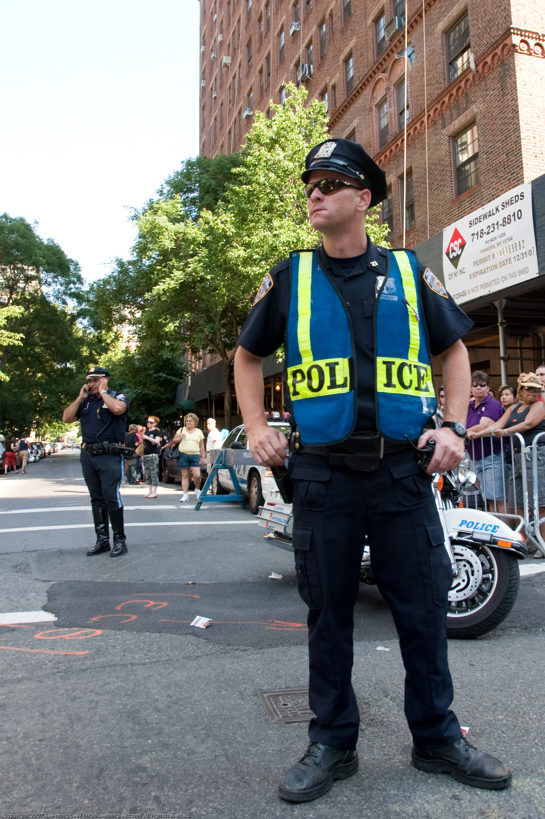 Photograph taken at the Gay Pride Parade in New York on Sunday, June 24, 2007, Walking down from 52nd Street + 6th Avenue to West Side Highway + Christopher Street. Direct URL Gay Pride New York 2007 Flickr Sets 200 Highlights / Gay Pride New York 2007 (Set) 200 Most Interesting / Gay Pride New York 2007 (Set) Annual Faerie + Church Ladies for Choice Drag March (Set) Coney Island Mermaid Parade 2007 (Set) Folsom Street East 2007 (Set) Gay Pride Parade New York 2007 (Set) Humanity / Portraits from Gay Pride New York 2007 (Set) Radical Faeries Drum Ritual / Gay Pride New York 2007 (Set) Content Syndication You may syndicate this content for non-commercial purposes as long as you attribute credits to me. Commercial usage will be considered on a case-by-case basis. Model Credits If you are the model of the photograph, email me at mailto: so I can give you proper credits. SML Copyright Notice Copyright 2007 ( All rights reserved.